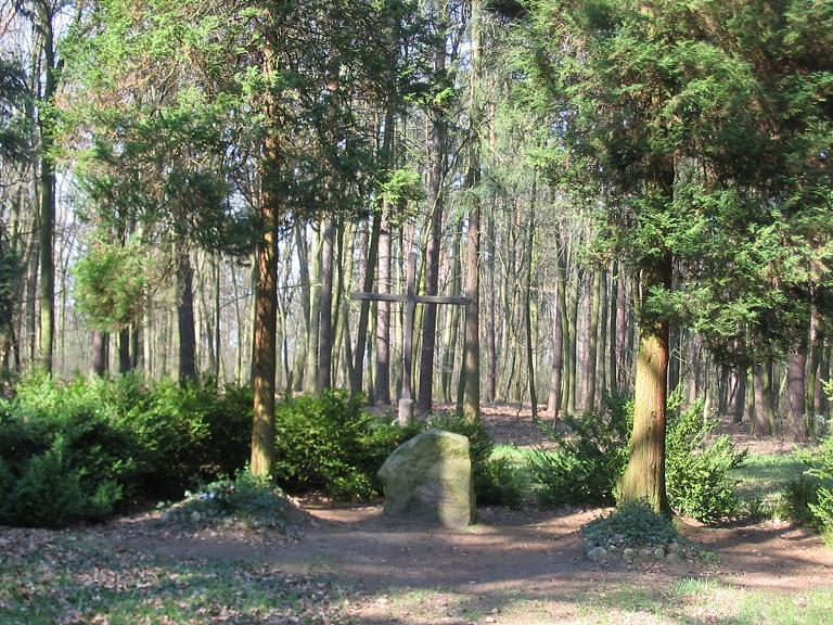 „Dauerwaldrevier“ (german for: Permanent-forest-area) Bärenthoren in the nature park Fläming, gravesite Friedrich von Kalitsch. The special forest was founded in 1884 by the forester Friedrich von Kalitsch. The village Bärenthoren is part of the municipality Polenzko and belongs to the the district Anhalt-Zerbst, state Saxony-Anhalt, Germany.